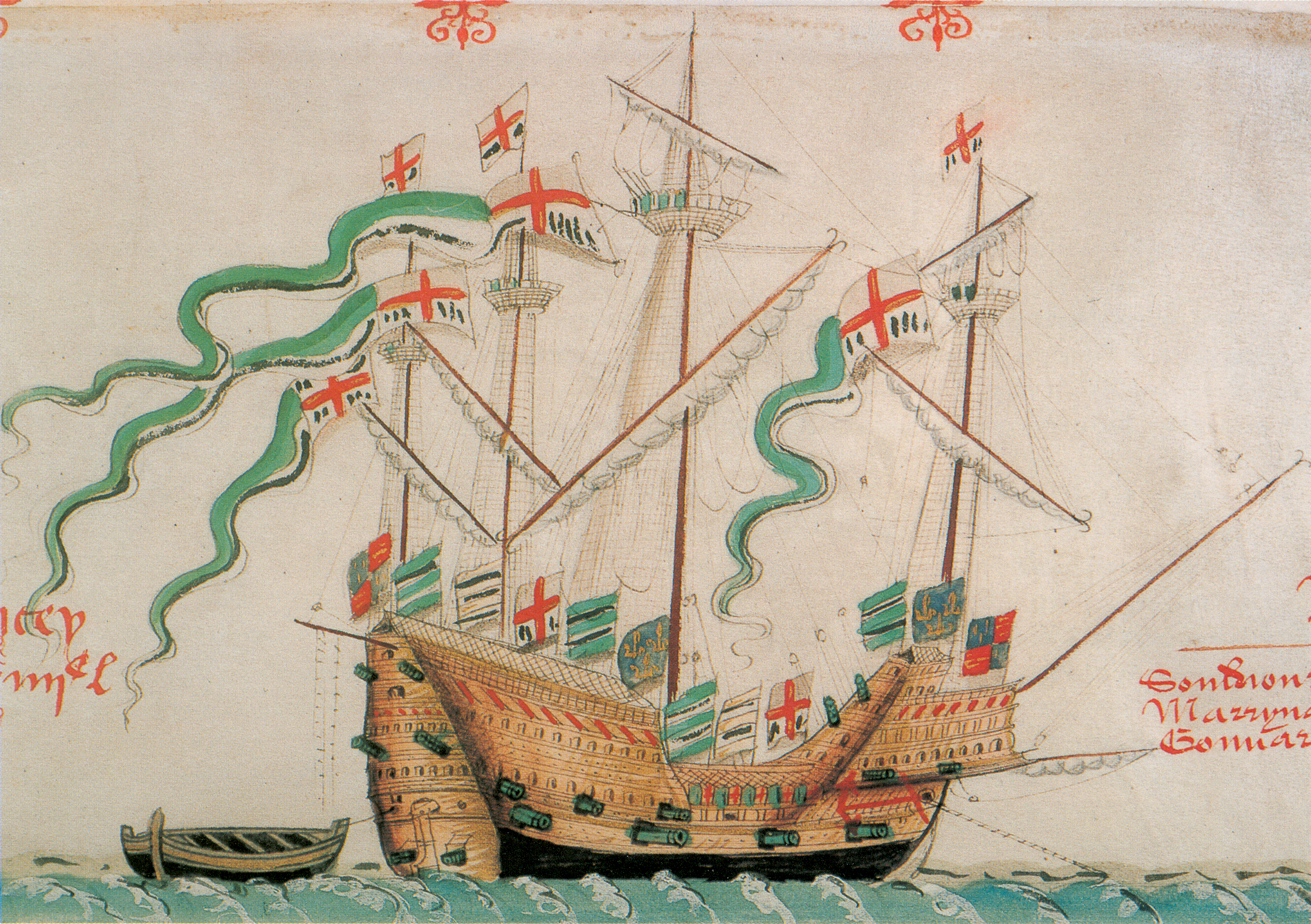 Illustration of the carrack Pansy. Notification about possible deletion